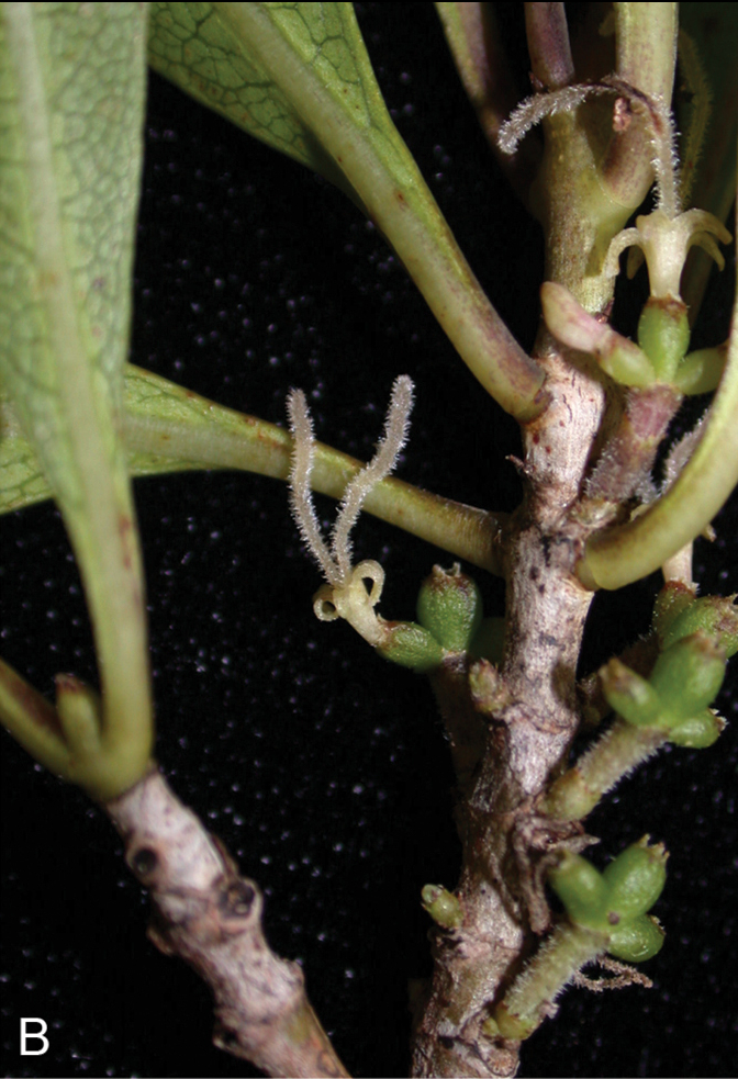 Coprosma fatuhivaensis, branchlets with female flowers (Fatu Hiva, Wood 10137, photos K.R. Wood)